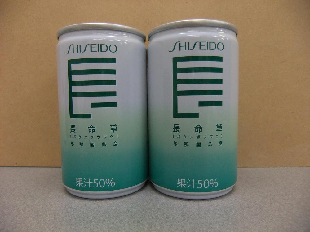 Shiseido "BOTAN-BOUFUU"